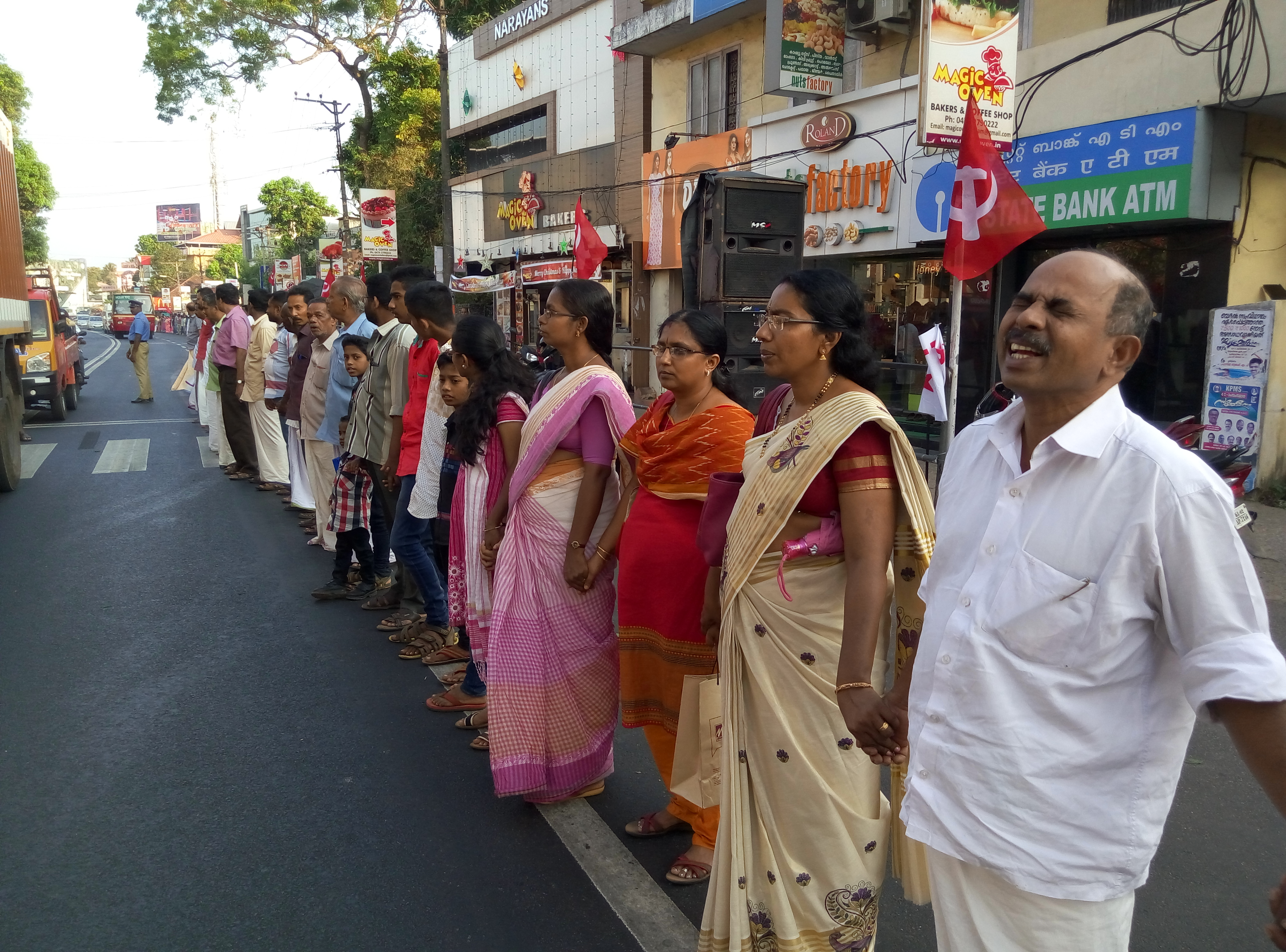 Ldf human chain against de monitisation in kerala